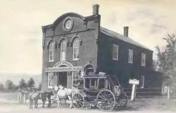 Mail delivery at the General Store & Post Office in c. 1910, Lower Corner, Sandwich, NH; from an old postcard.